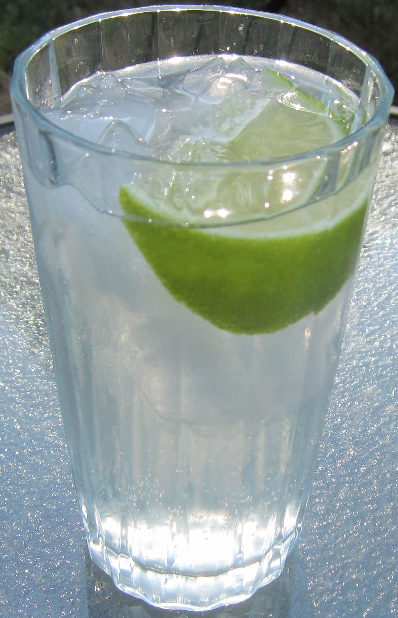 Tequila & Tonic, beverage